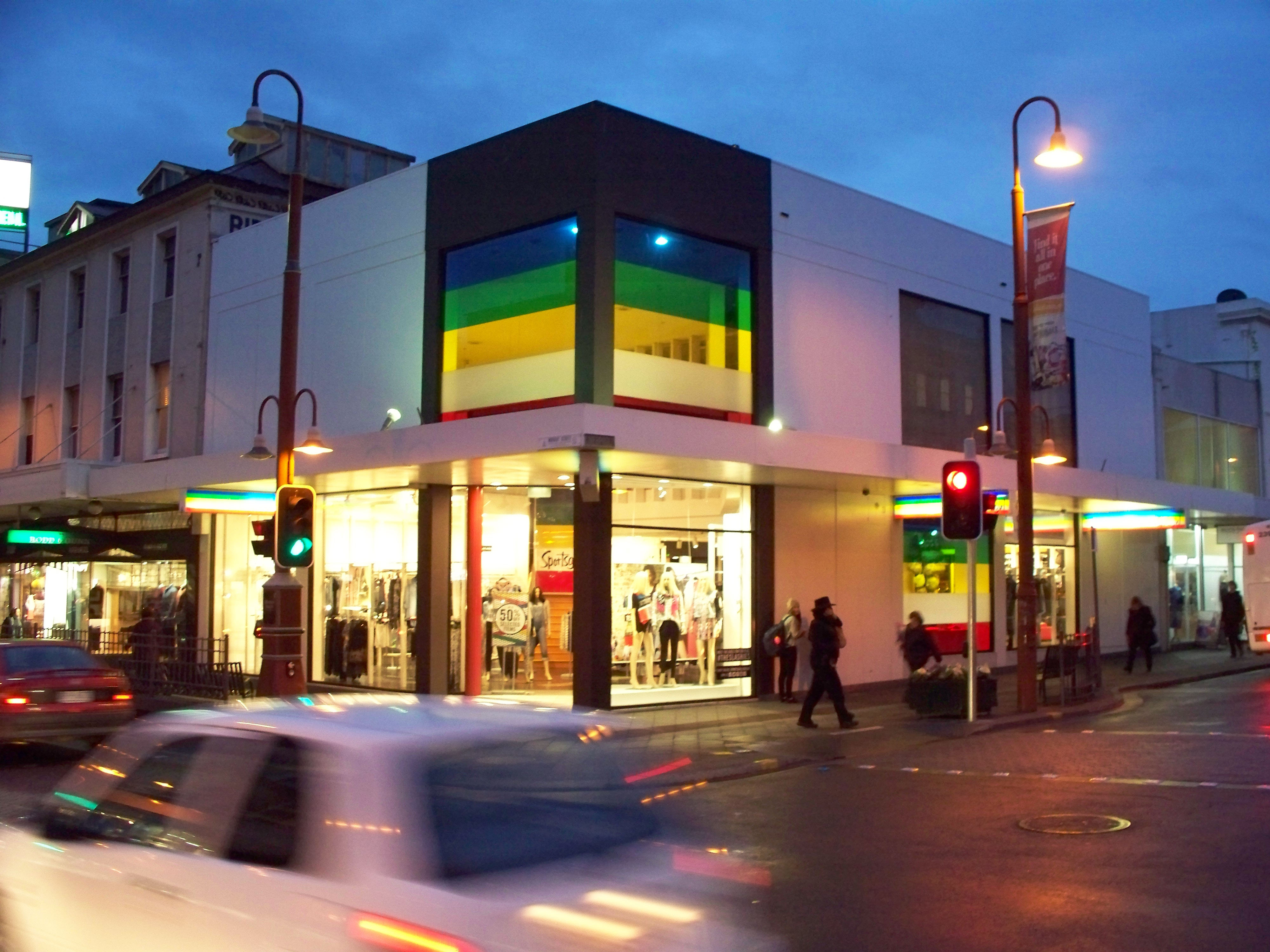 A Sportsgirl outlet on Murray Street, Hobart CBD.